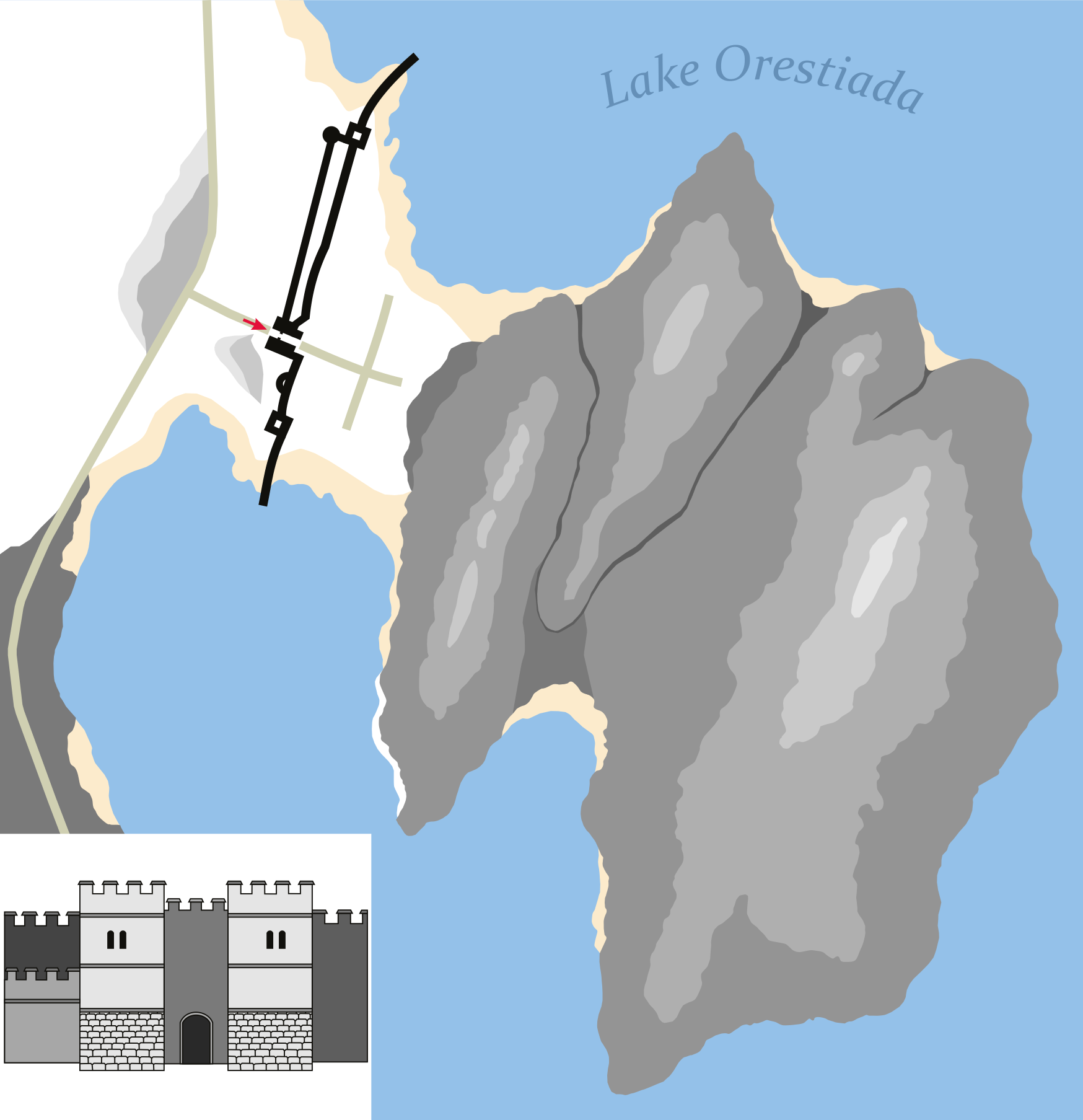 Plan of the medieval Bulgarian fortress Kastoria Based on: [1]